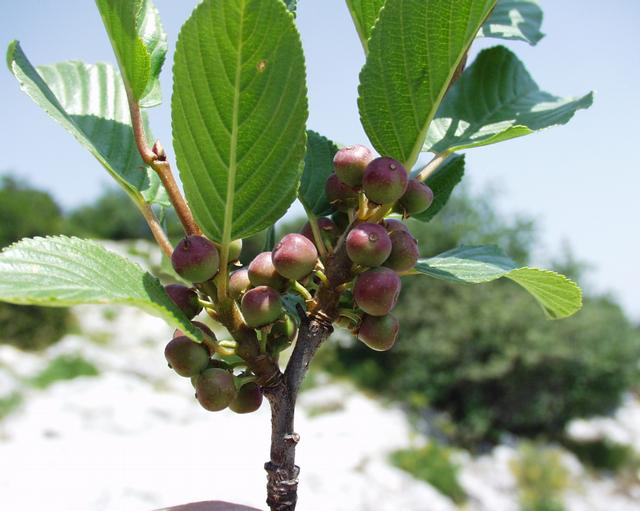 (en) Rhamnus alpina , a photography originating of the internet site The accord of the autor, H. Brisse, is here. (fr) Rhamnus alpina , une photographie issue du site internet L'accord de l'auteur, H. Brisse, se situe ici.